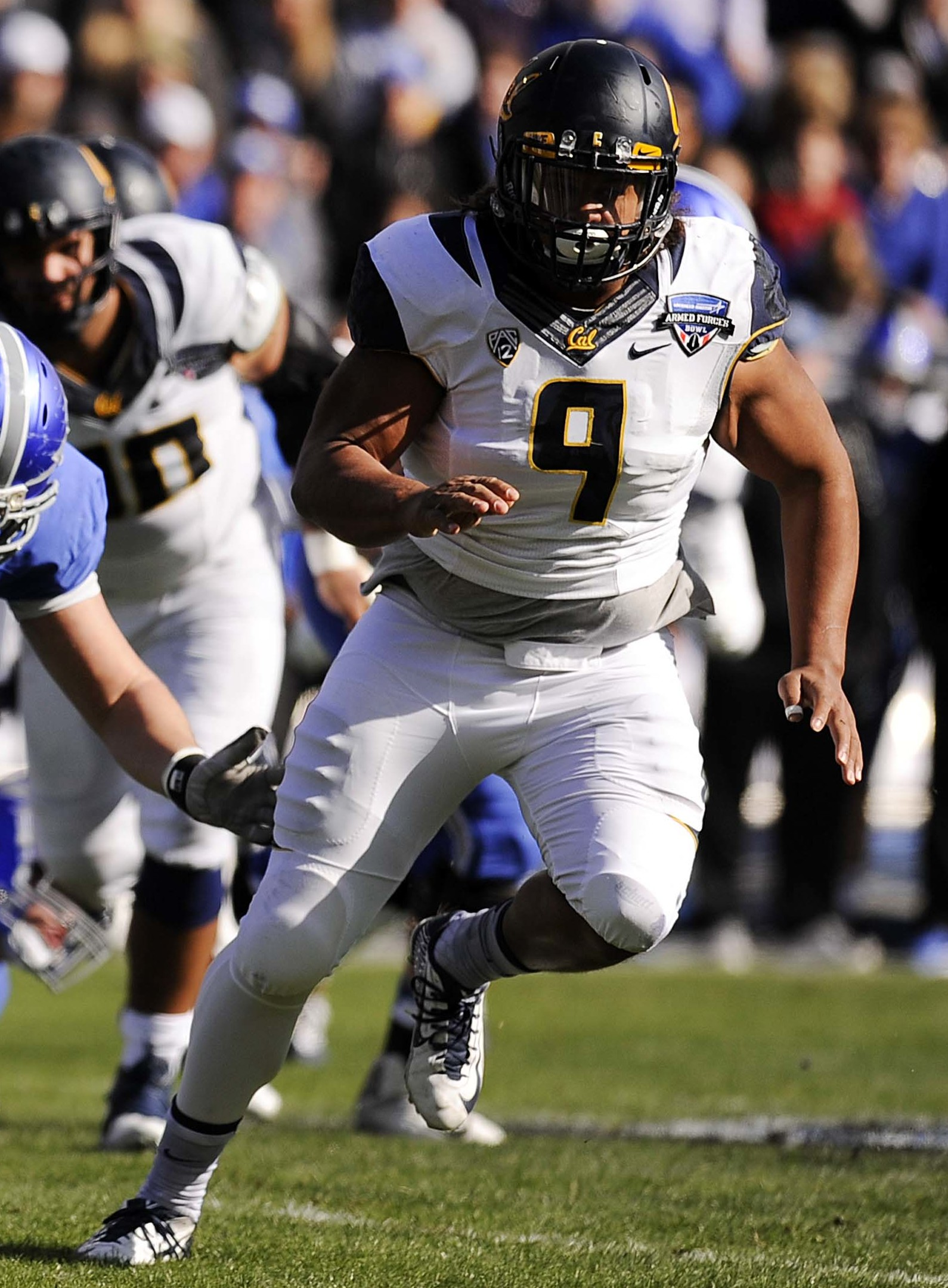 The Air Force Falcons and Cal Golden Bears compete in the 2015 Armed Forces Bowl